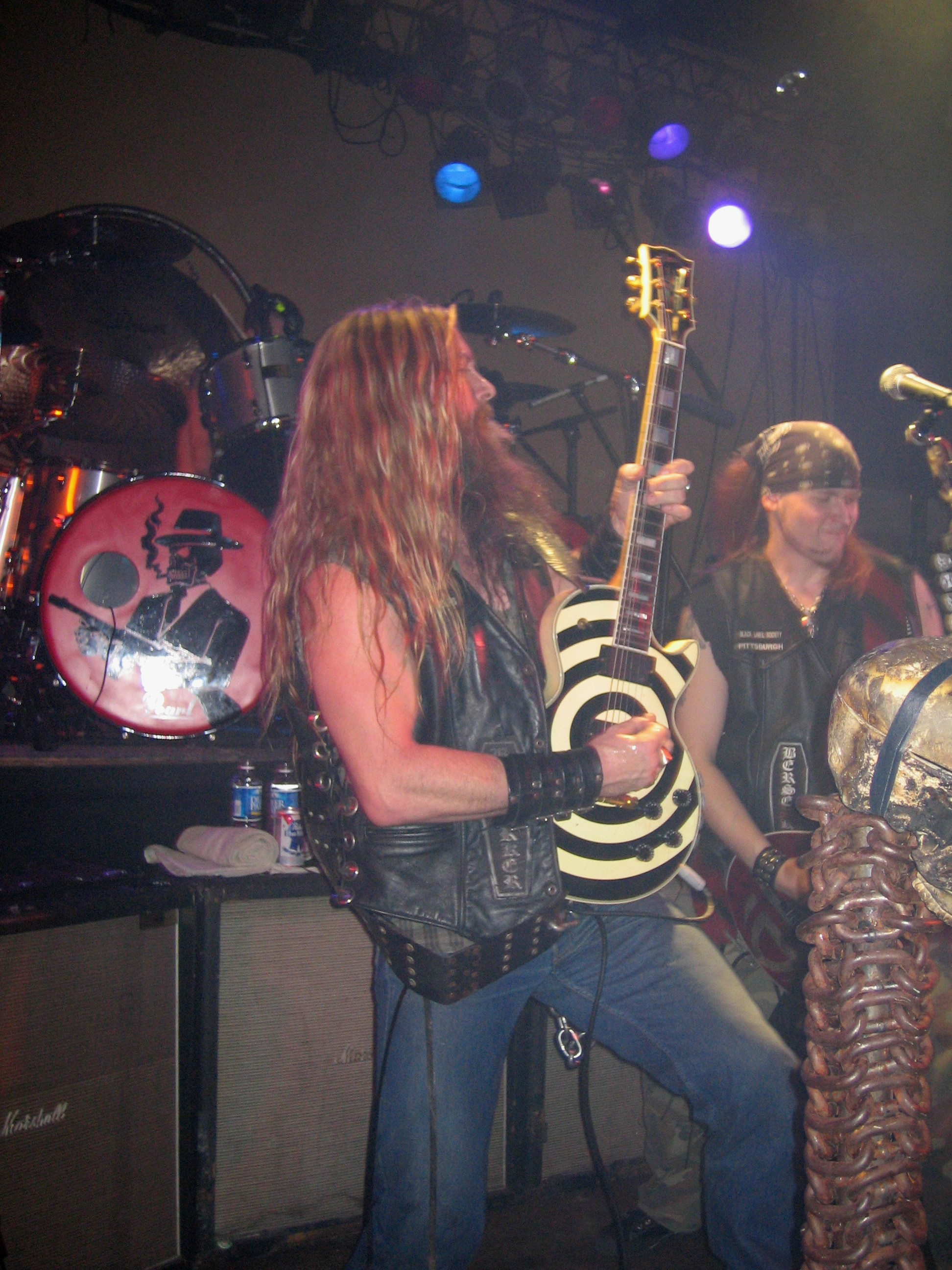 Zakk Wylde live (Recorded at Jaxx Nightclub in Springfield, VA)